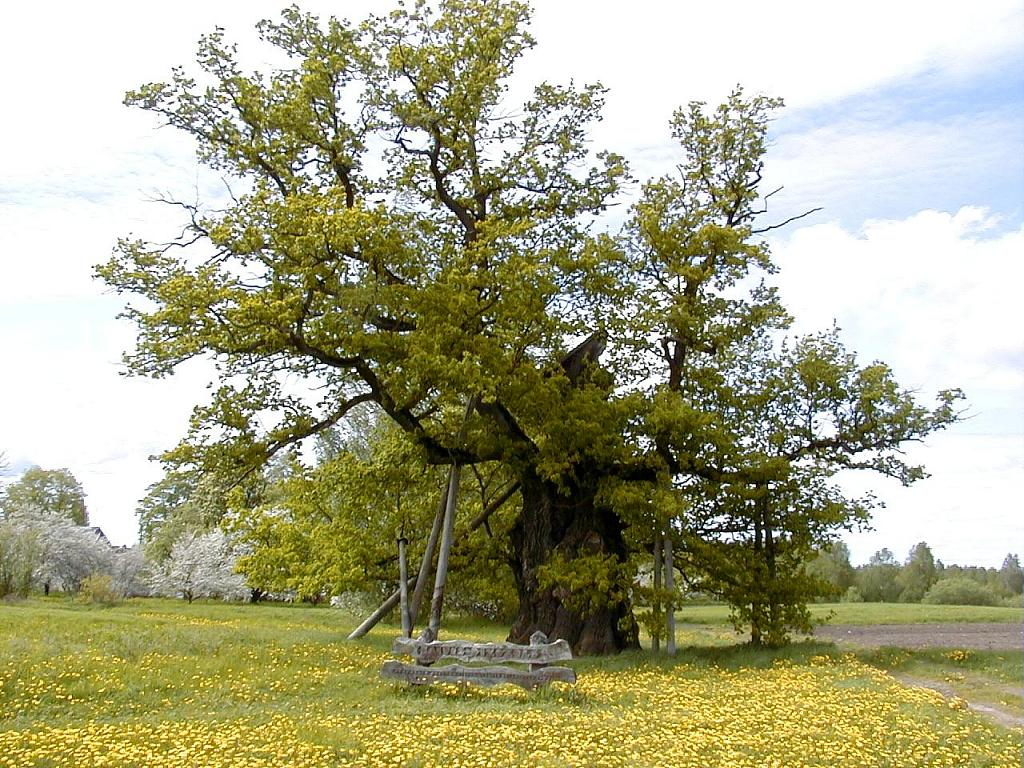 The oak of Kaives on the 20 May 2001. (Sēme pagasts (parish), Latvia.)